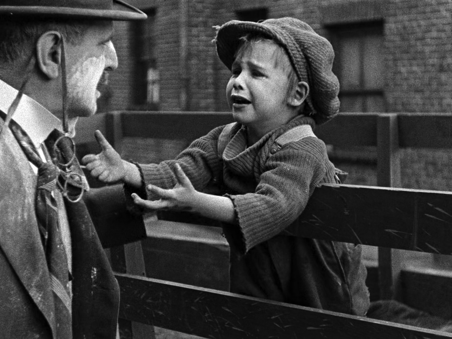 Frank Campeau (the man) and Jackie Coogan (child) in The Kid (1921).